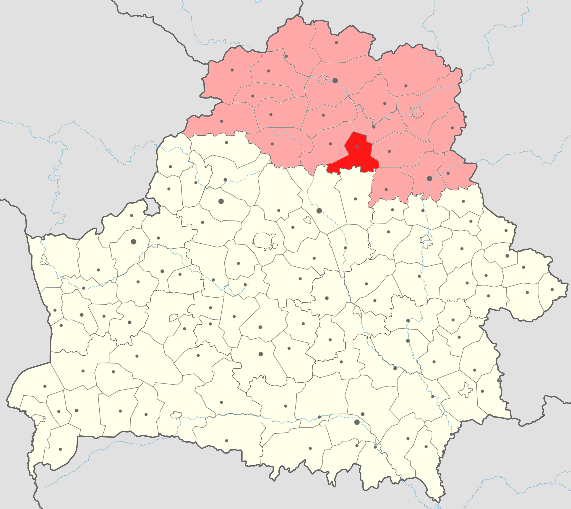 Map of Čašnicki raion (in red) with Viciebskaja voblast' (in light red) on the map of Belarus.